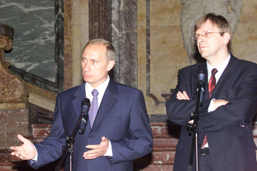 BRUSSELS. A news conference with Belgian Prime Minister Guy Verhofstadt at the end of Russian-Belgian negotiations.